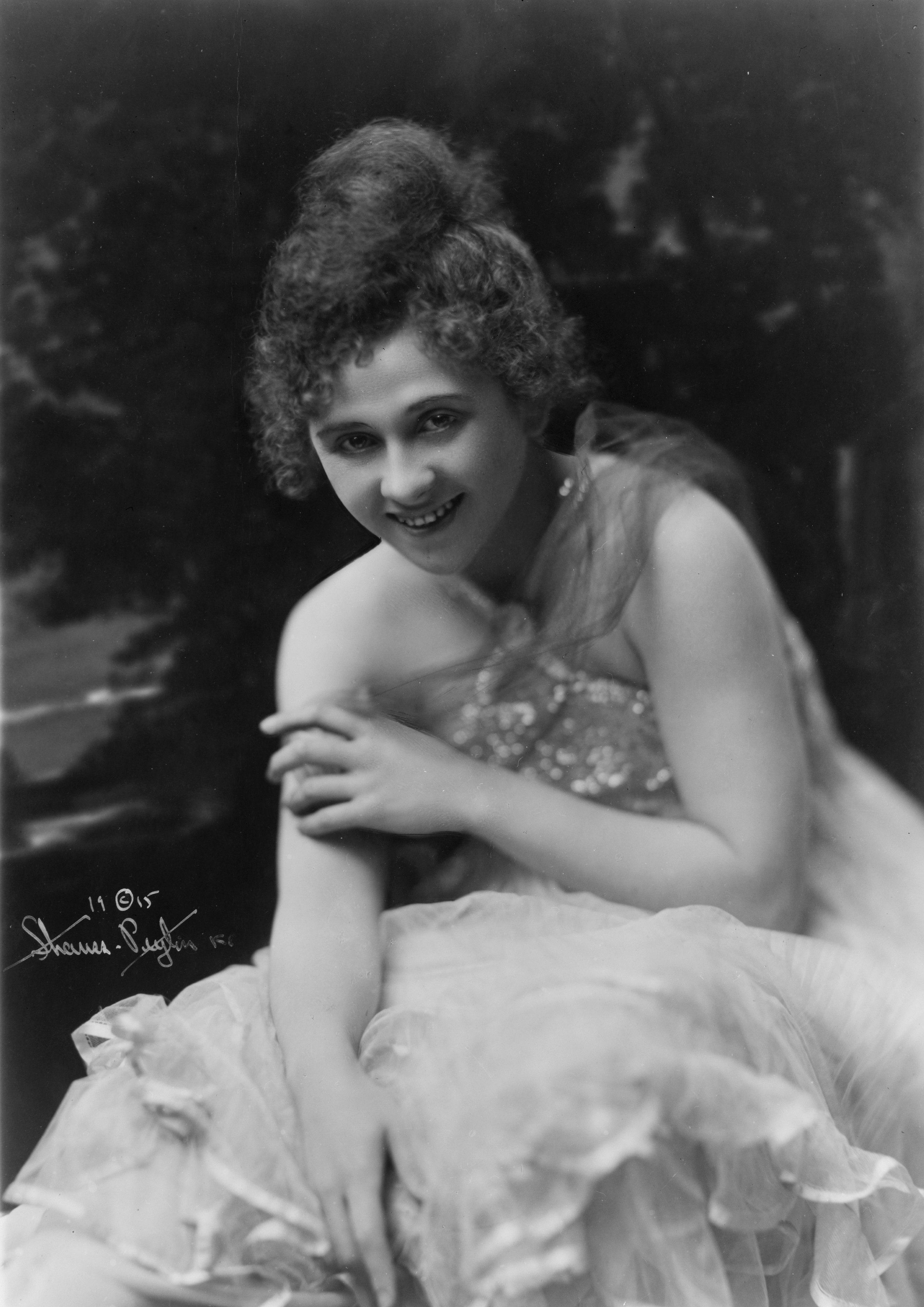 Title: Nan Halperin, three-quarter length portrait, facing front] / Strauss-Peyton Abstract/medium: 1 photographic print.